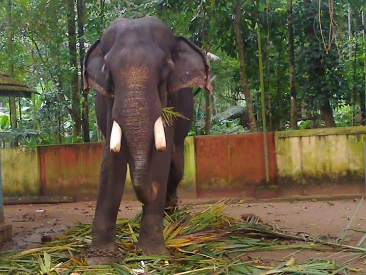 nandakumaran